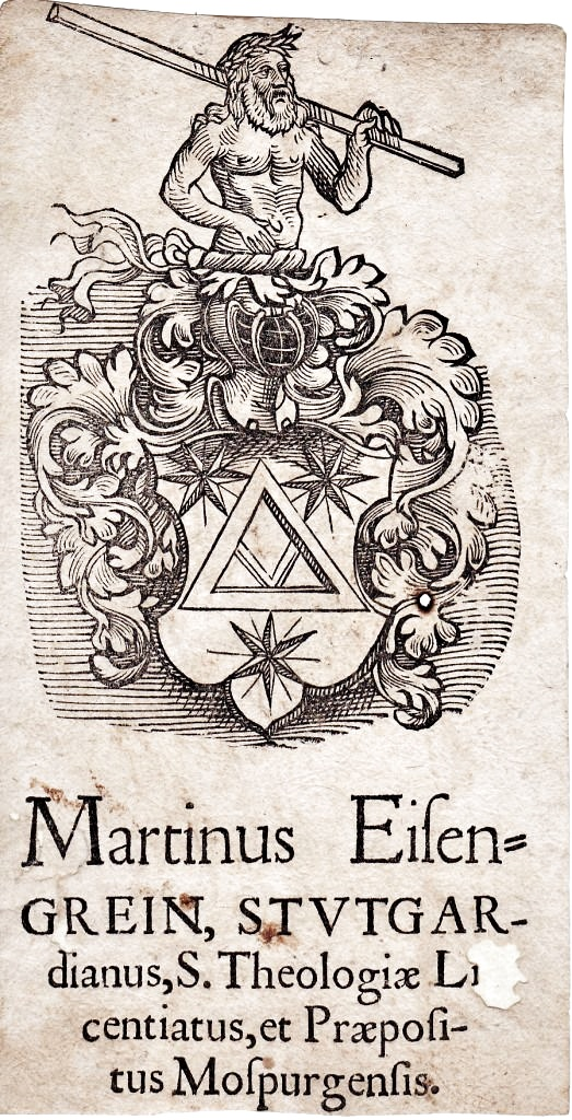 Exlibris des kath. Theologen Martin Eisengrein (1535-1578), Dekan u. Rektor der Universität Ingolstadt, Propst von Moosburg